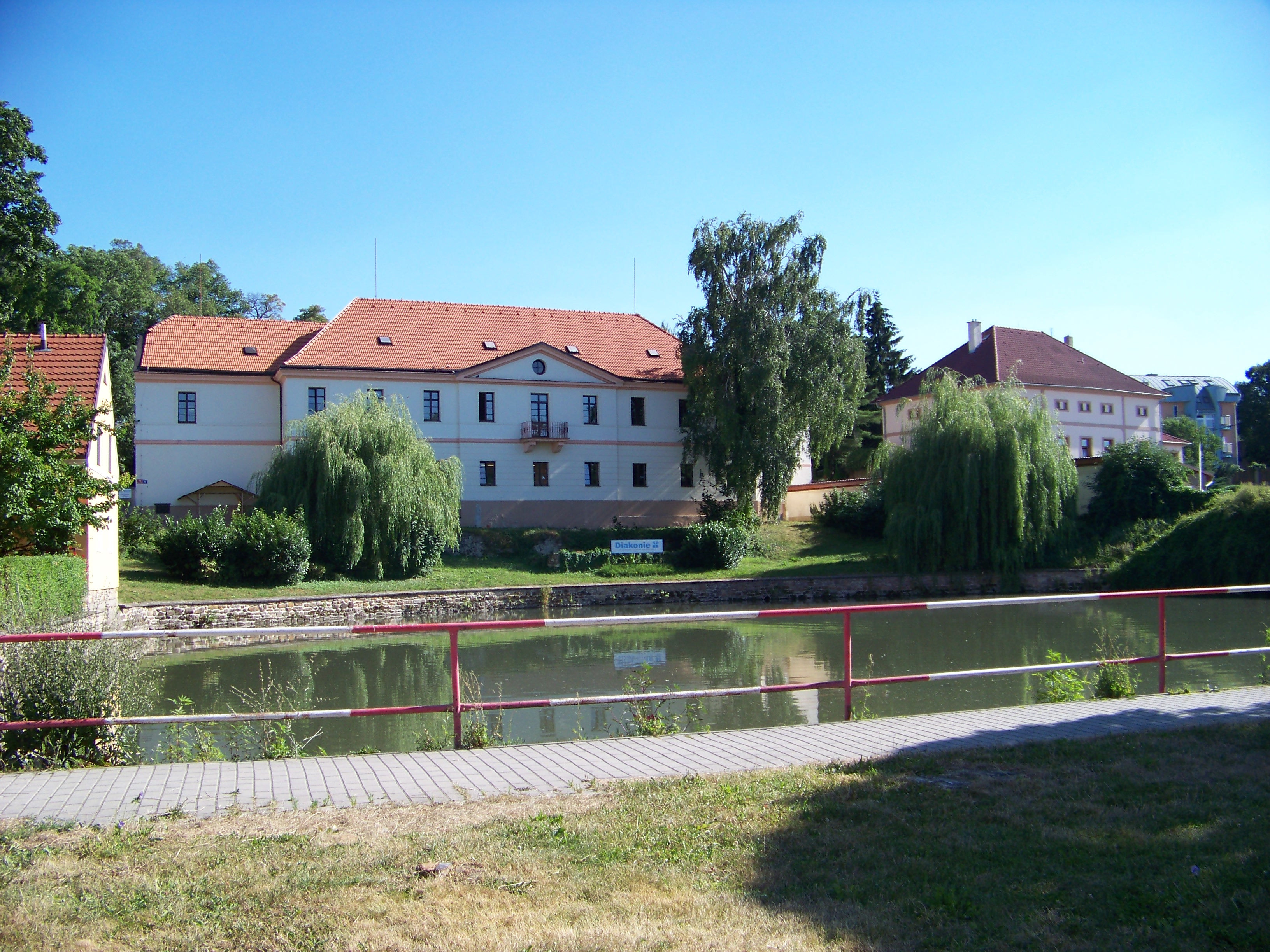 Prague-Horní Počernice. Křovinovo náměstí 11/16, 7/8 and Křoviňák pond. - OpenStreetMap(Info)